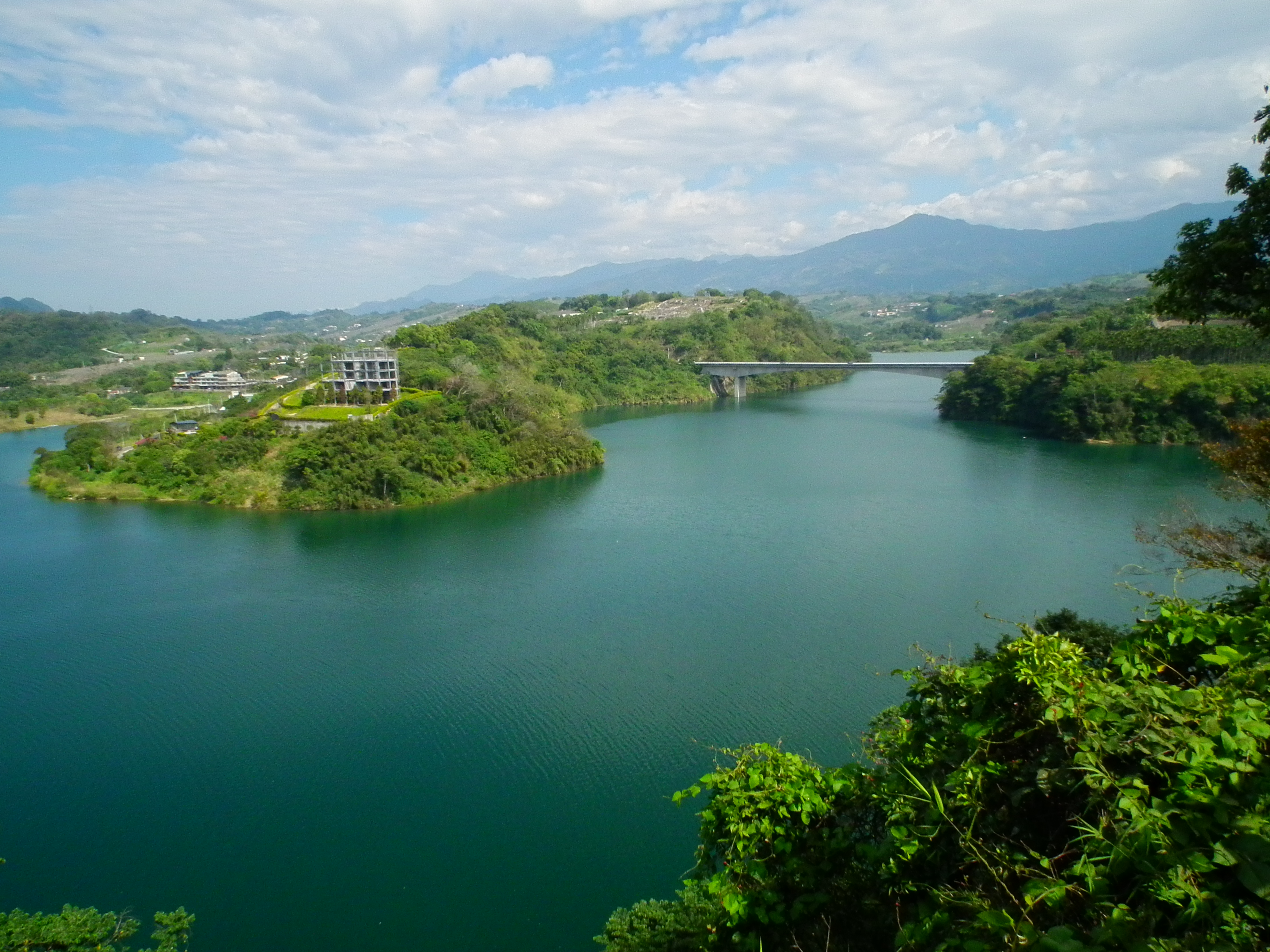 景山橋 Jingshan Bridge